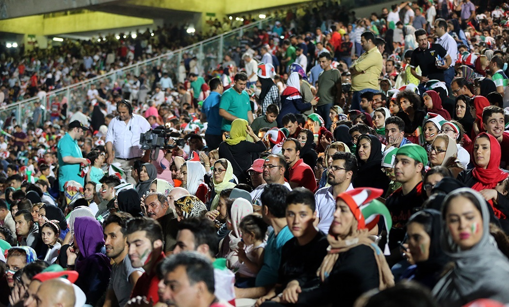 People watching Iran-Portugal match at 2018 FIFA World Cup in Azadi Stadium